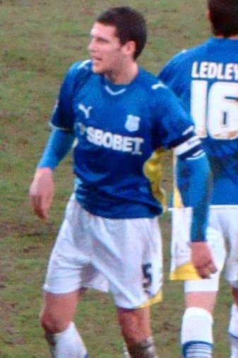 Cardiff V Leicester, FA Cup 4th Rd, Cardiff City Stadium, Cardiff, Wales